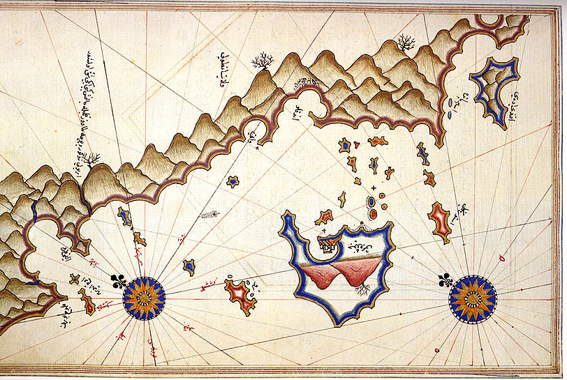 Kaş in Turkey and the island of Kastelorizo in Greece on the Kitab-ı Bahriye (Book of Navigation) of Piri Reis